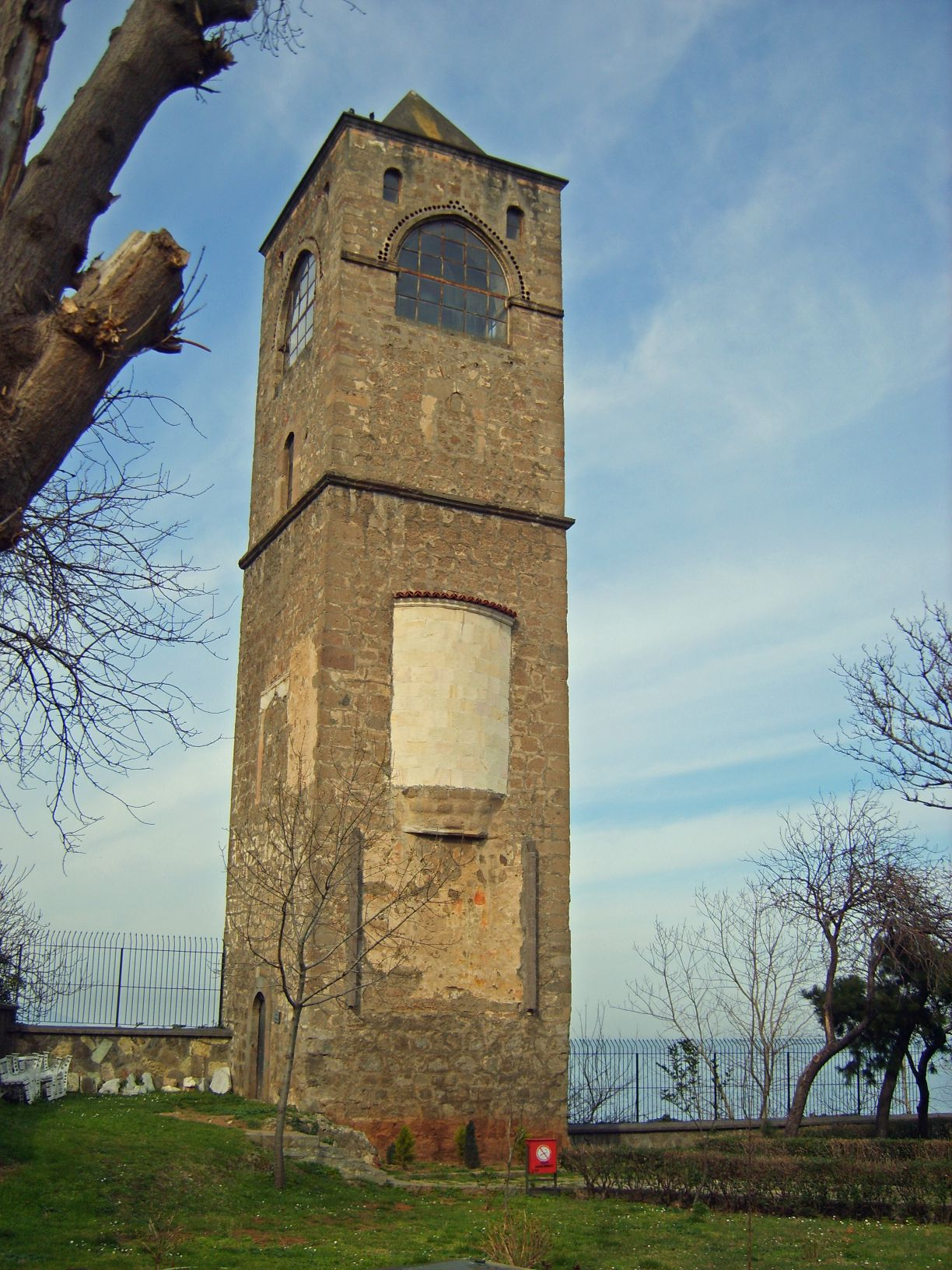 Hagia Sophia bell tower, Trabzon